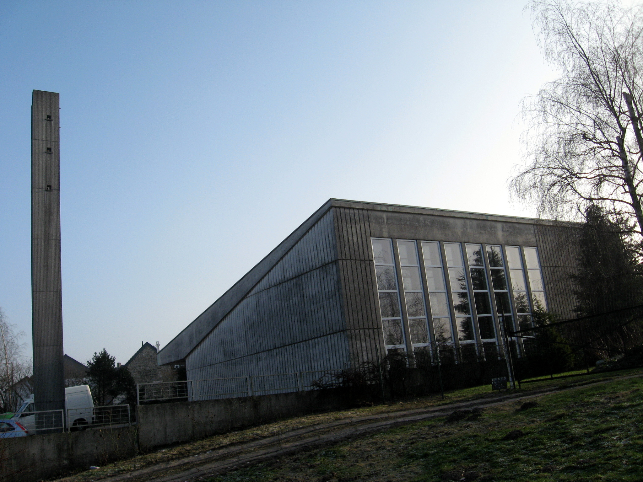 Chapel of ease of Saint-Lawrence in Heuseux, Cerexhe-Heuseux, Soumagne, Liège, Belgium